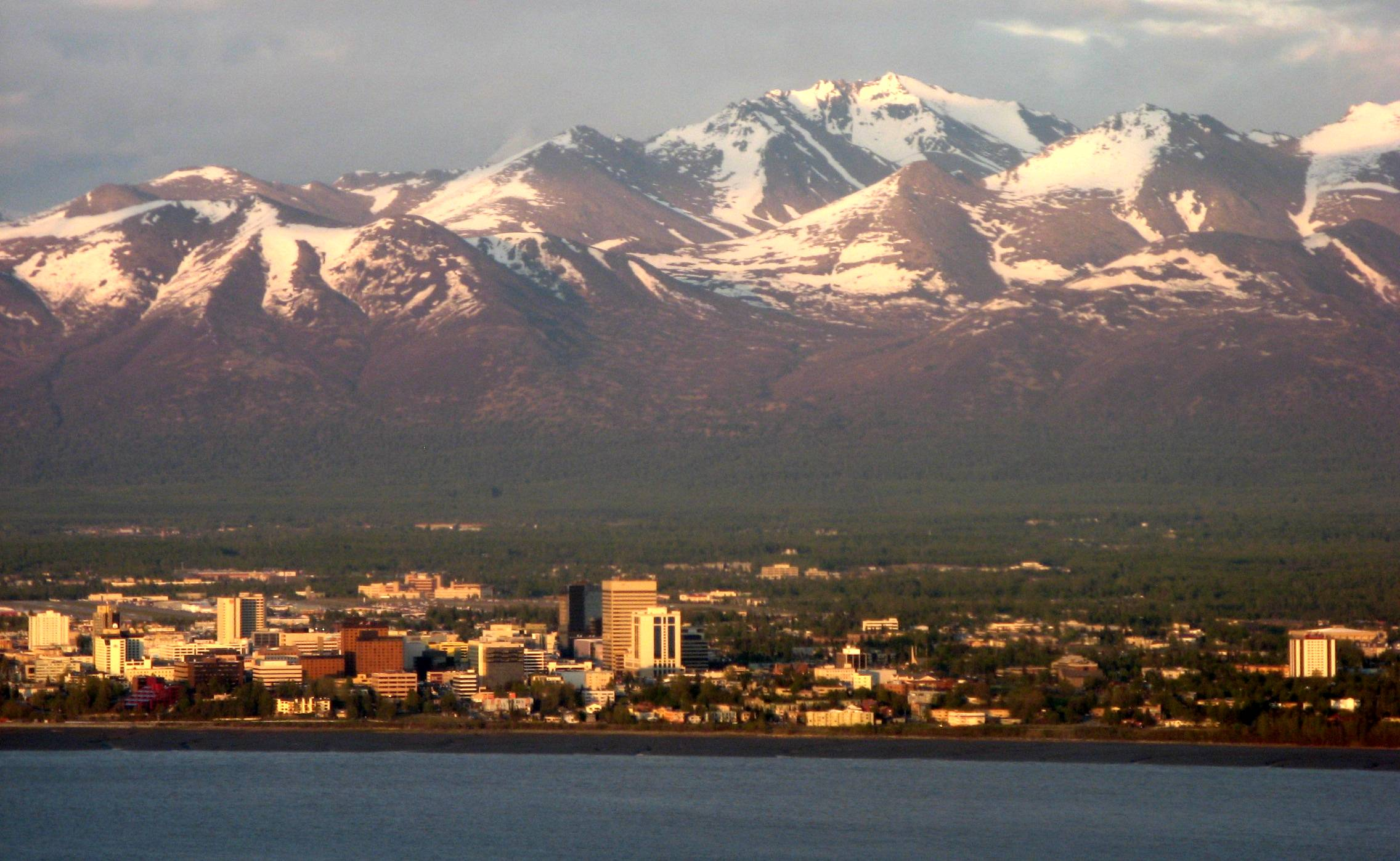 Taken from an Alaska Airlines flight approaching Anchorage International Airport around 10 p.m. on a lovely May 2008 evening.